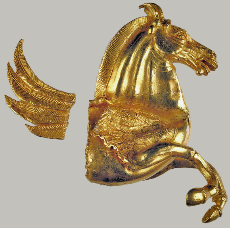 A golden thracian pegasus, found in Vazovo, Bulgaria.